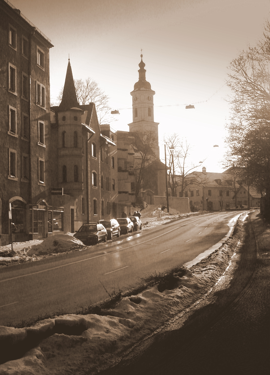 Lindwurmstraße in Sendling, Munich, Bavaria, Germany. Photo taken myself: Dominik Hundhammer, München, January 2005.